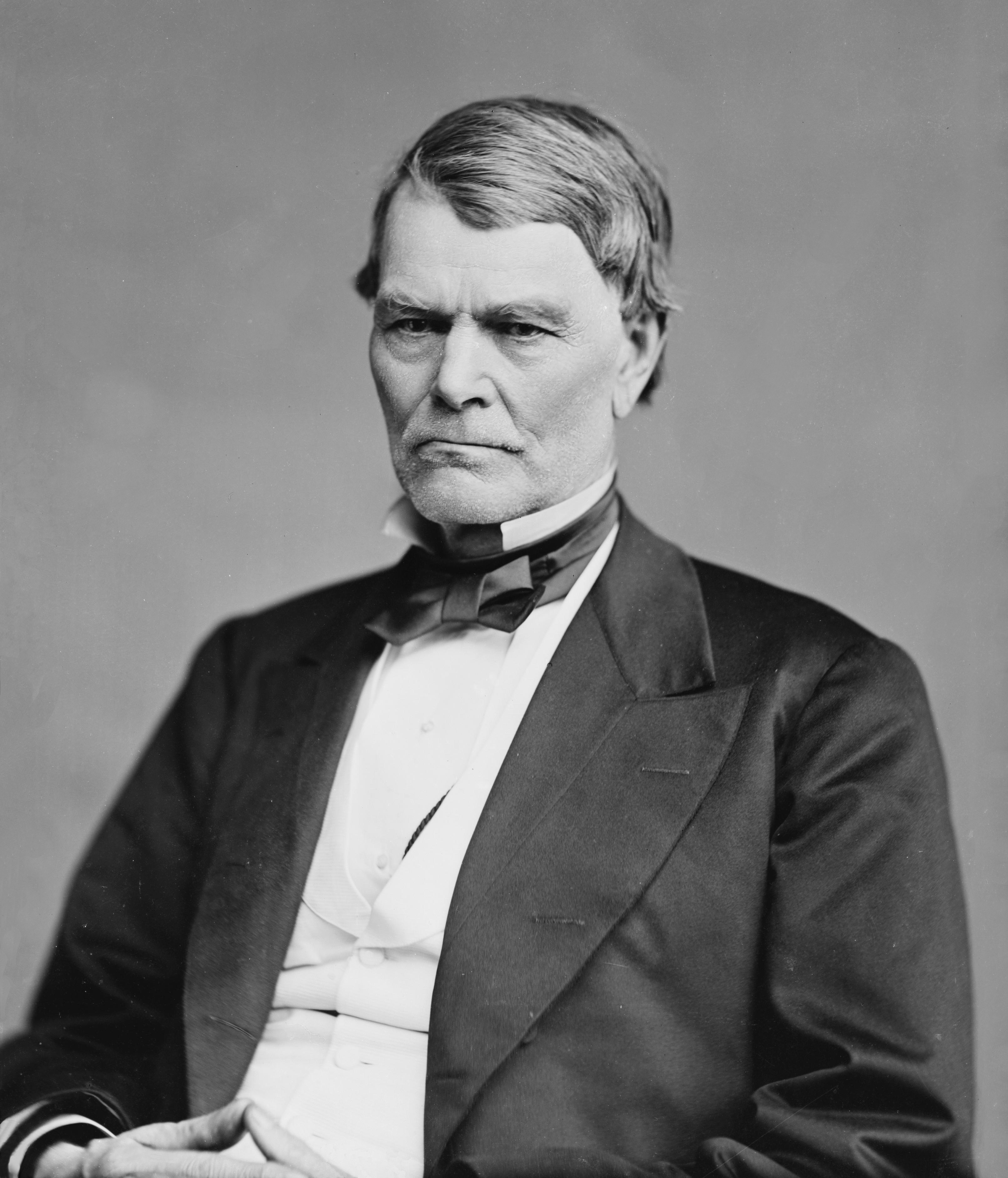 Hiram B. Warner. Library of Congress description: "Warner, Hon. Hiram of GA". Library of Congress Prints and Photographs Division. Brady-Handy Photograph Collection. CALL NUMBER: LC-BH826- 2670 [P&P]